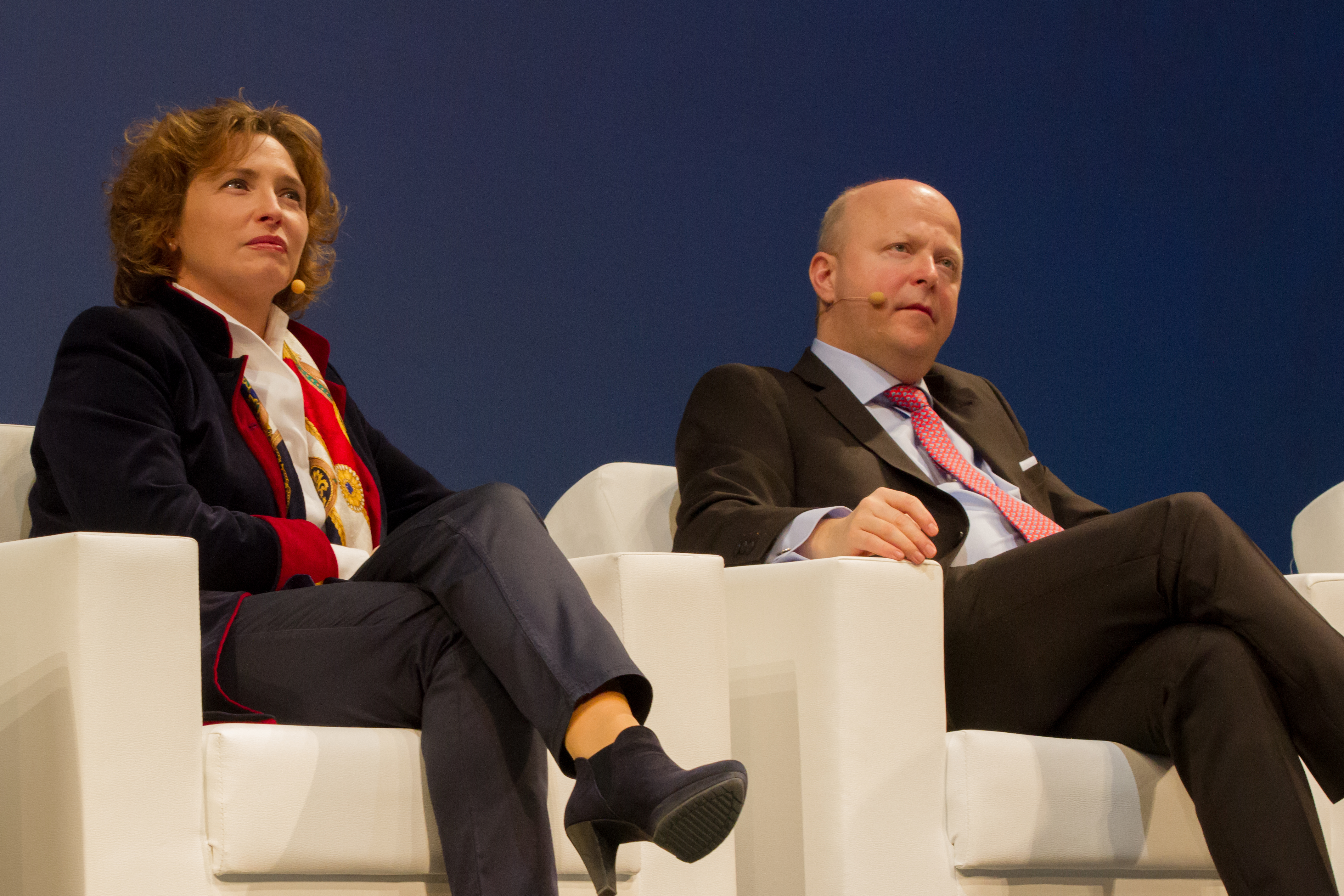 Series: Liberals' Epiphany rally hosted by the FDP Baden-Württemberg in the opera house of Stuttgart on January 6, 2015 Image: Nicola Beer (l.) and Michael Theurer (r.)